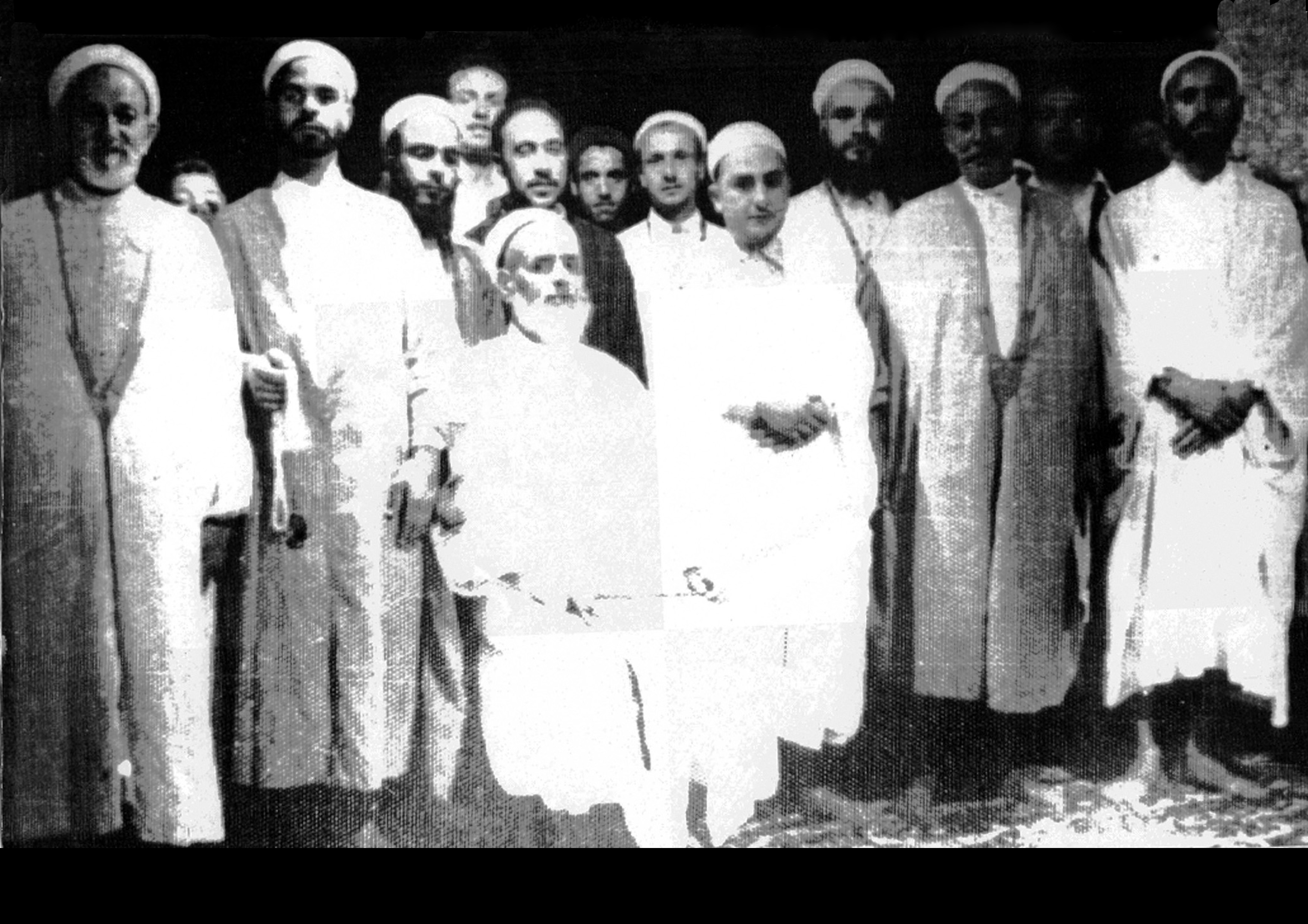 Muhammad al-Madânî and his fuqard'u